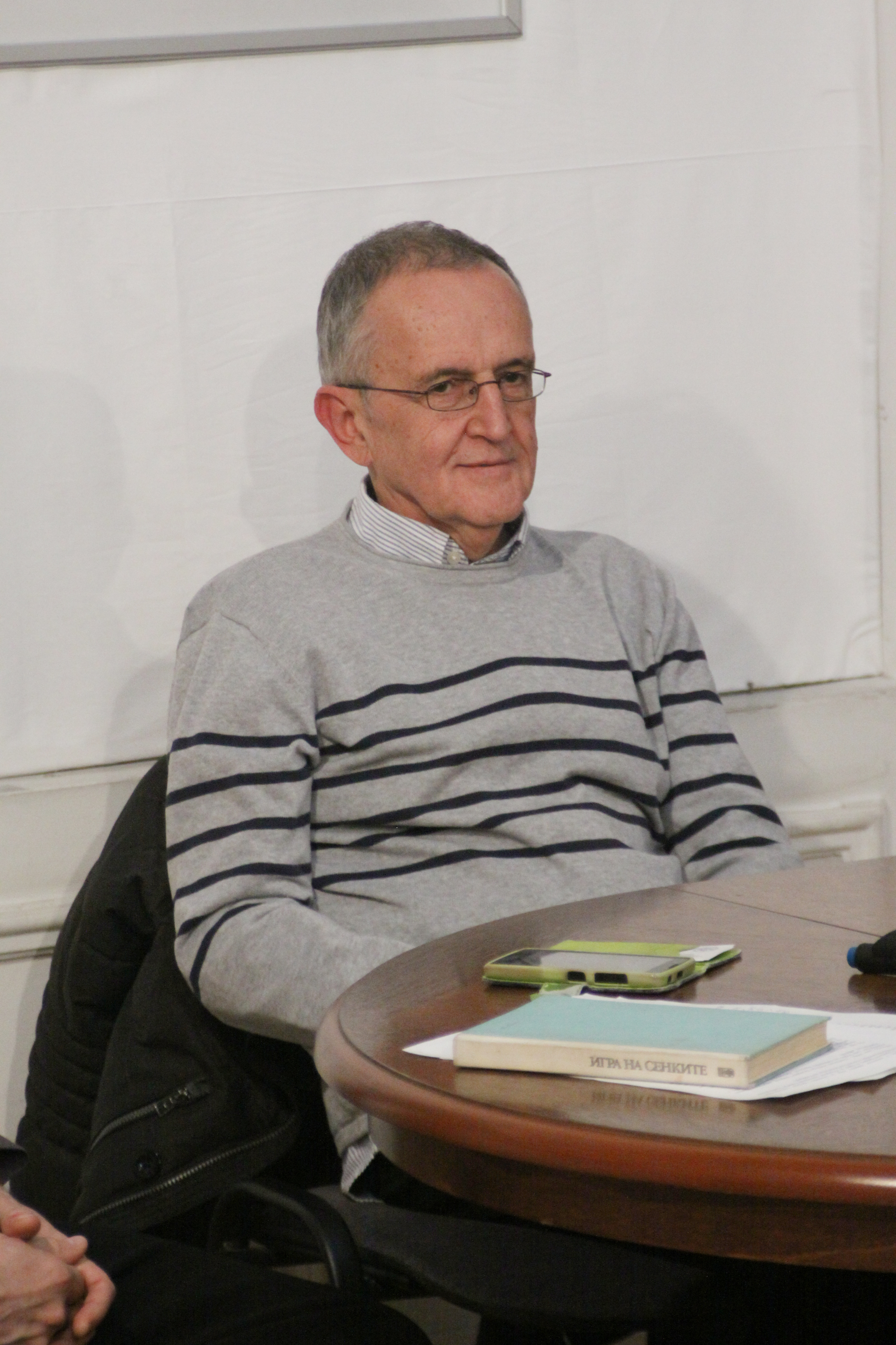 Slavic and Serbian fantasy cycle, University library, Belgrade, Serbia, Zoran Živković, Serbian writer. Srpski (latinica): Ciklus "Slovenska i srpska fantastika", Univerzitetska biblioteka, Beograd, Srbija, Zoran Živković, srpski pisac.